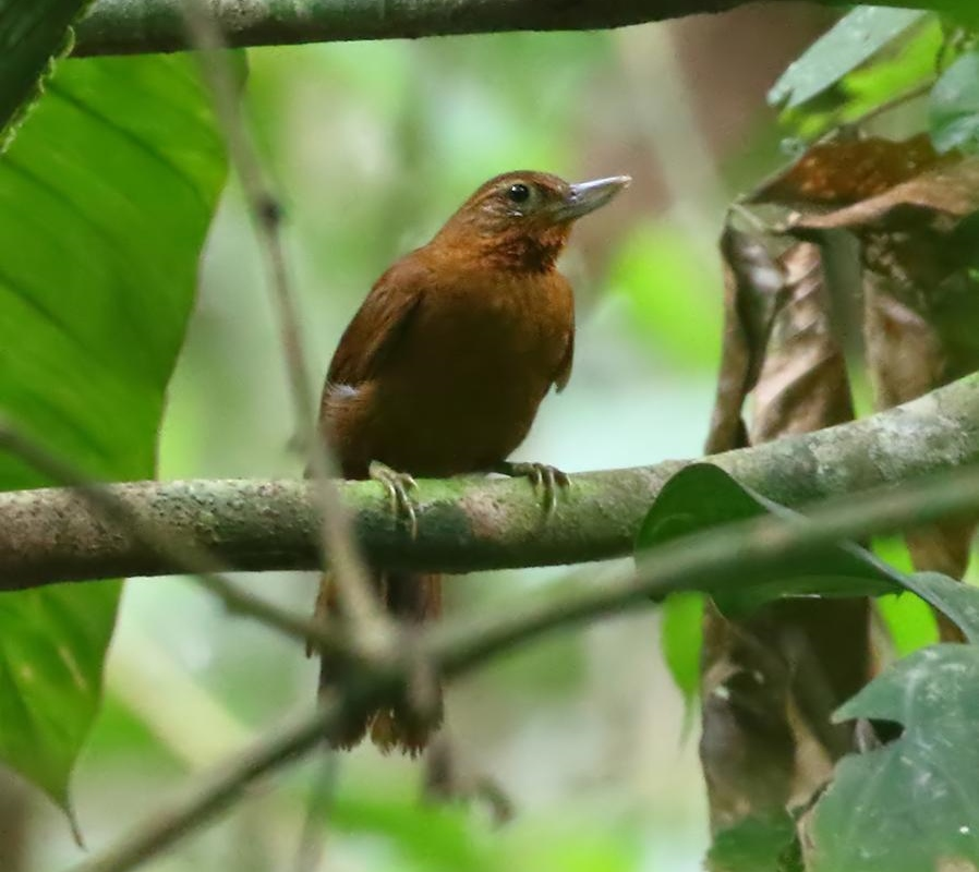 Peruvian Recurvebill; Tambopata, Peru